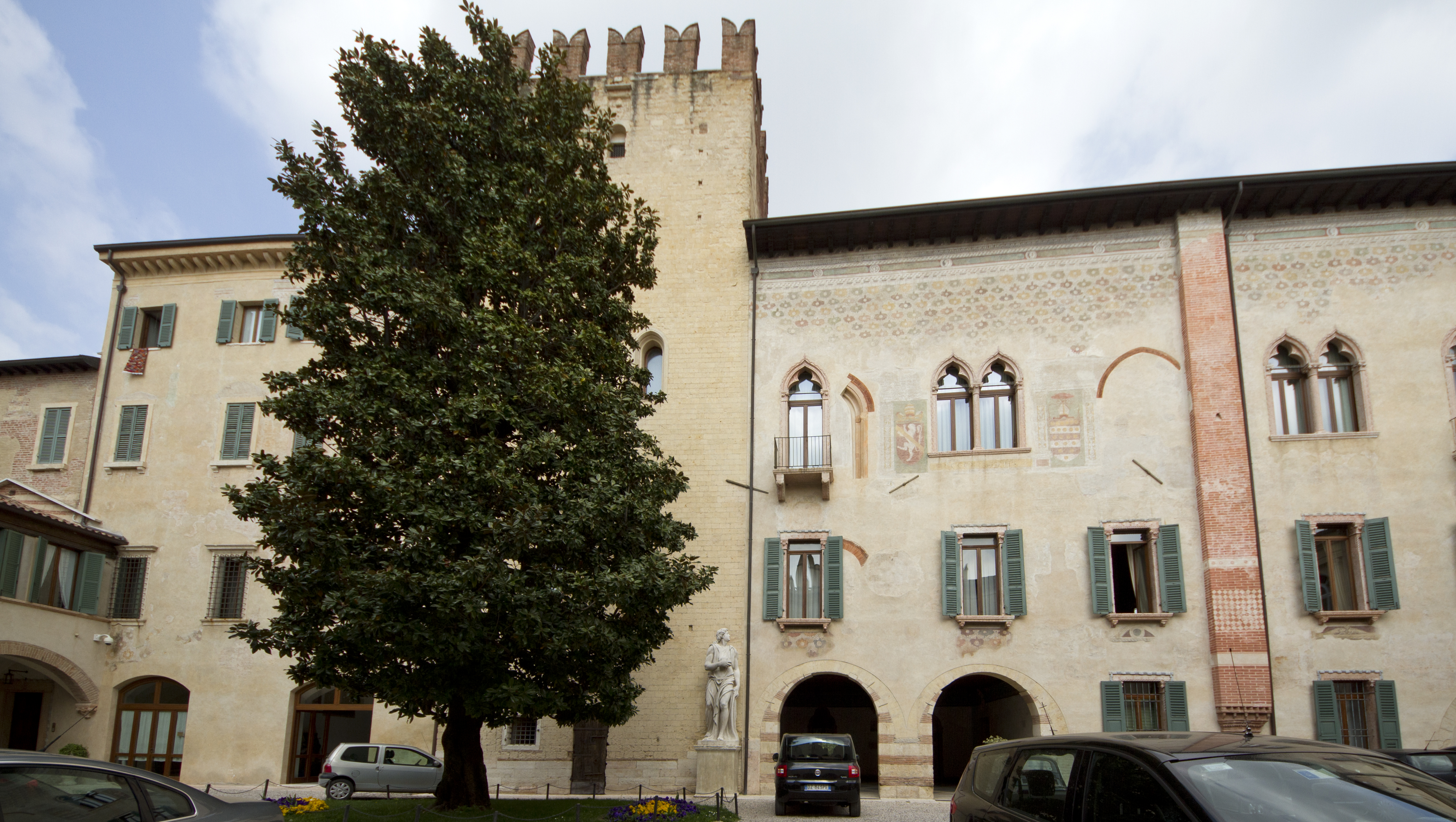 Verona, Province of Verona, Italy